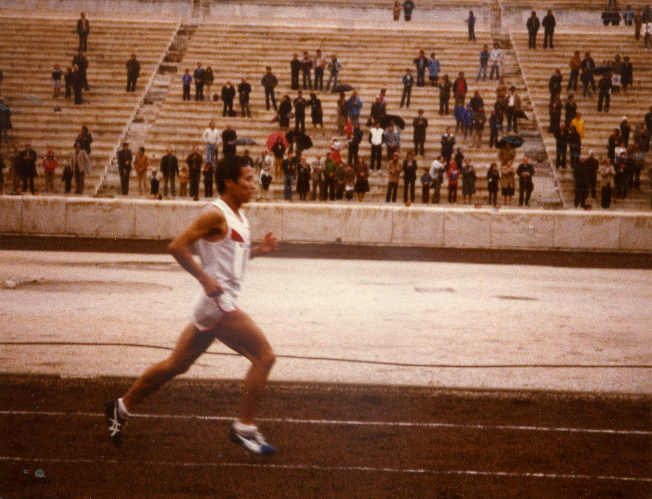 Kunimitsu Ito finishing the IAAF Citizen Golden Marathon in Athens, Greece (March 1991)